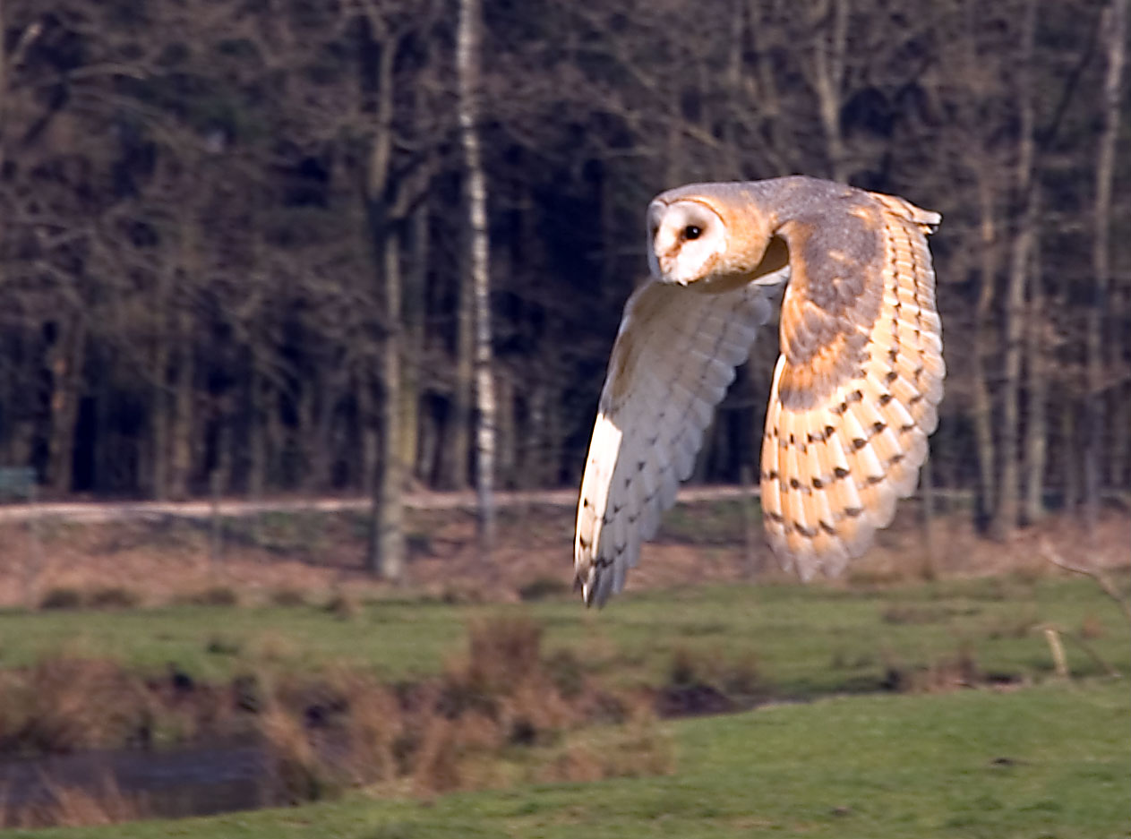 Aduilt of T. a. guttata in flight -- Sandesneben, Germany